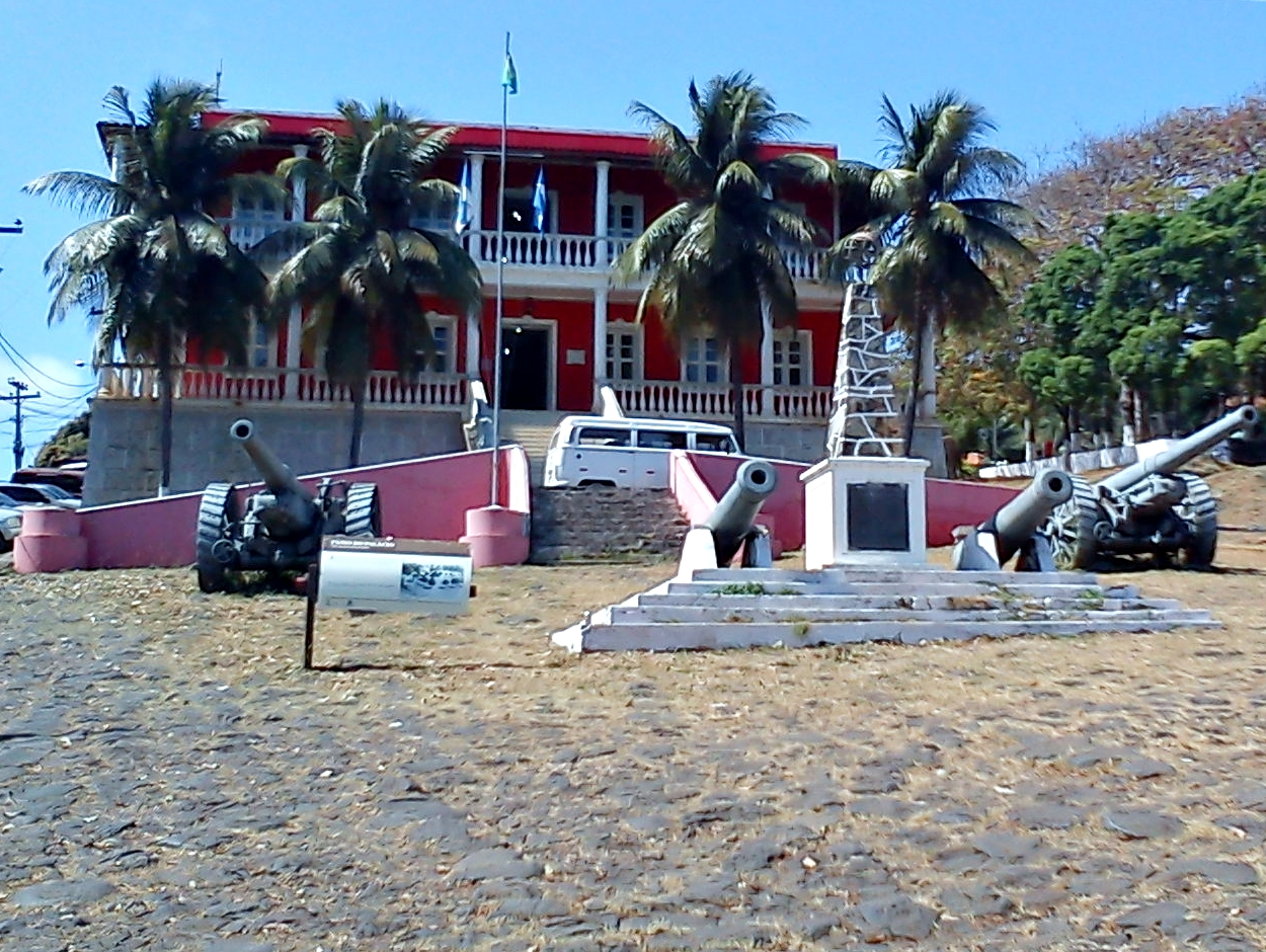 São Miguel Palace - Fernando de Noronha - Pernambuco - Brazil